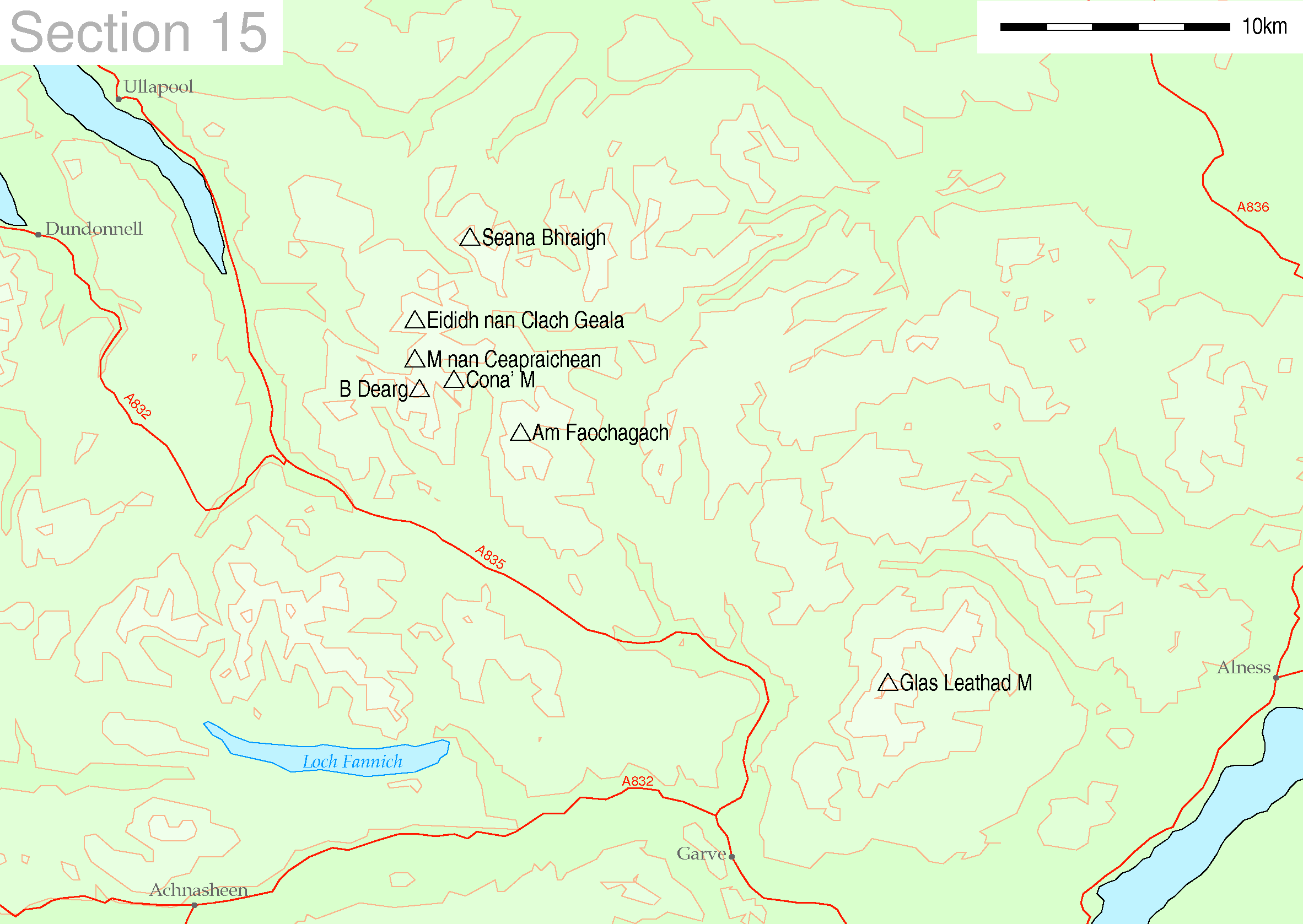 Map of Munro hills in SMC section 15